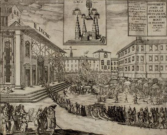 The funerals of Cardinal Cesare Monti held in Piazza Duomo, Milan 1650